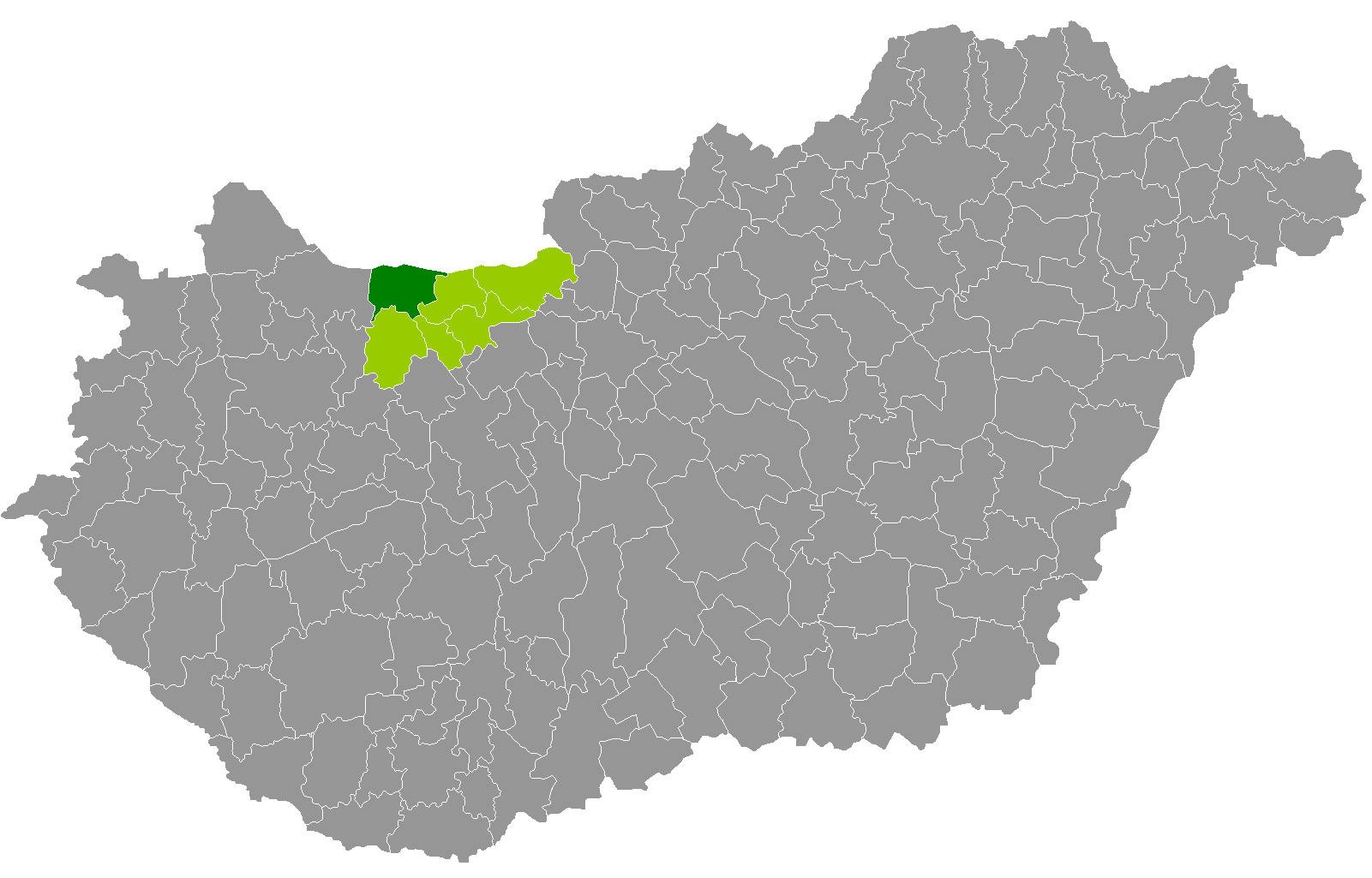 Location of Komárom District, Komárom-Esztergom, Hungary